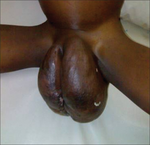 Genitourinary Plexiform Neurofibroma Mimicking Sacrococcygeal Teratoma